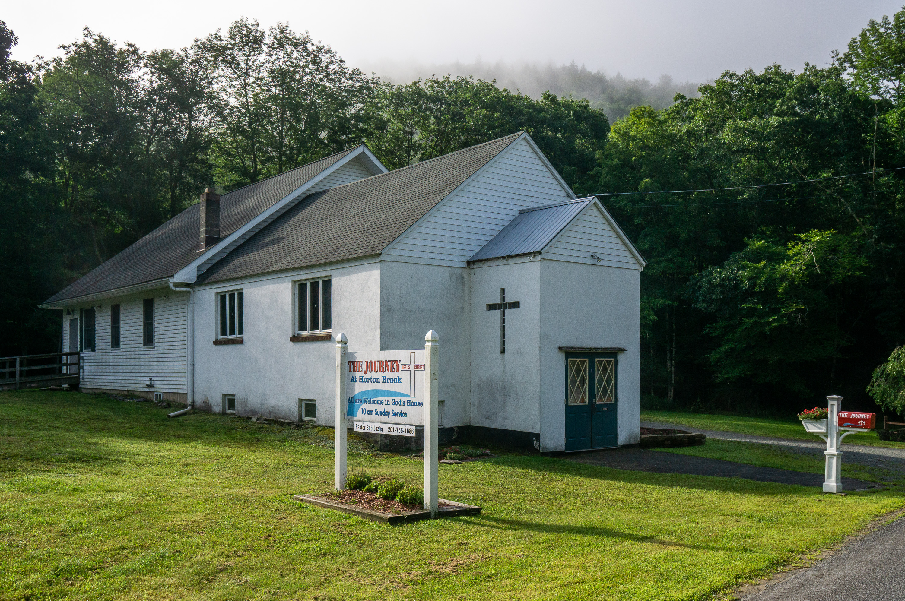 The Journey at Horton Brook, a Methodist church at 110 Fuller Hill Road, Roscoe, NY